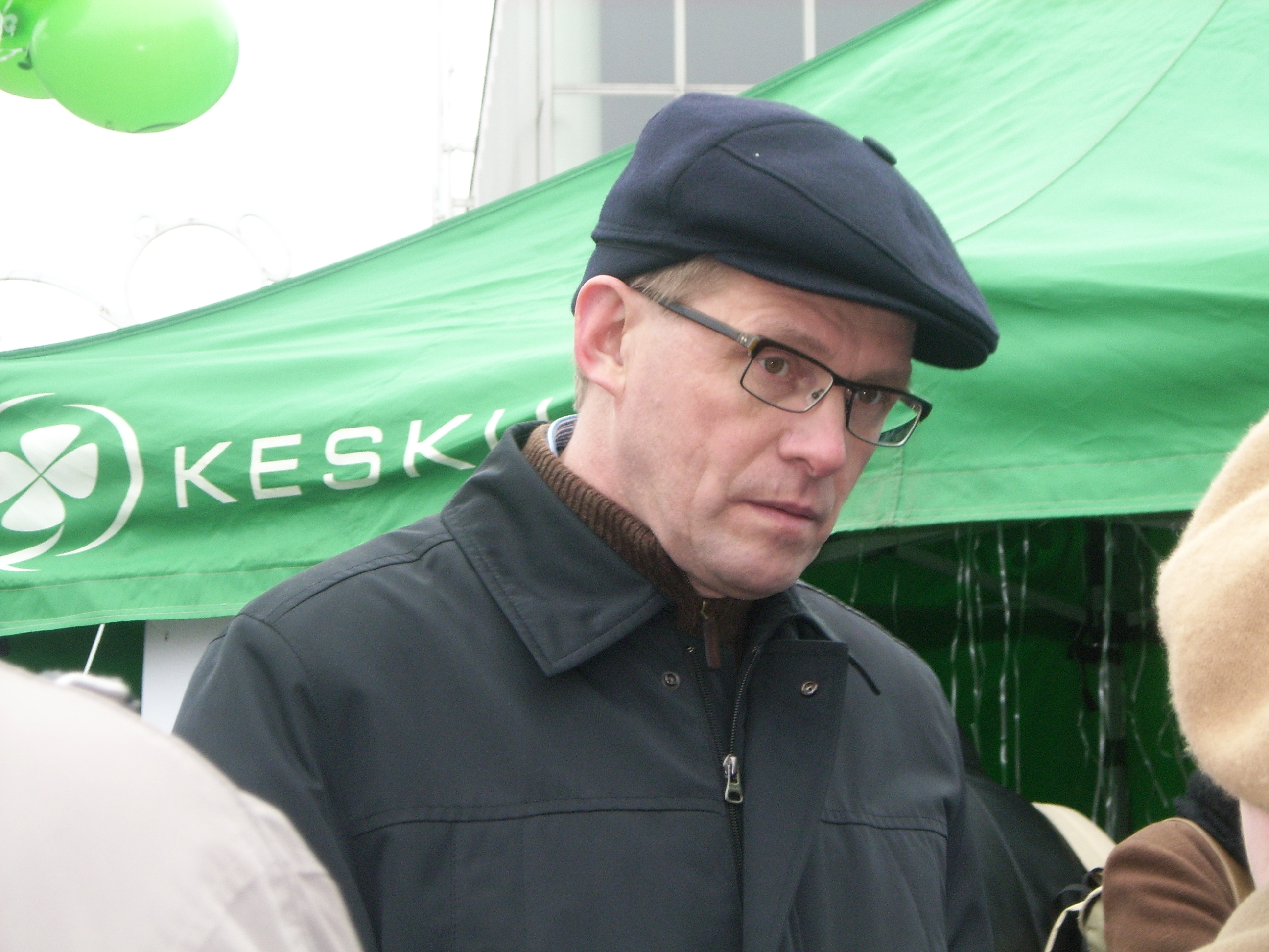 Prime Minister of Finland Matti Vanhanen eight days prior the Finnish parliamentary election on March 18, 2007.